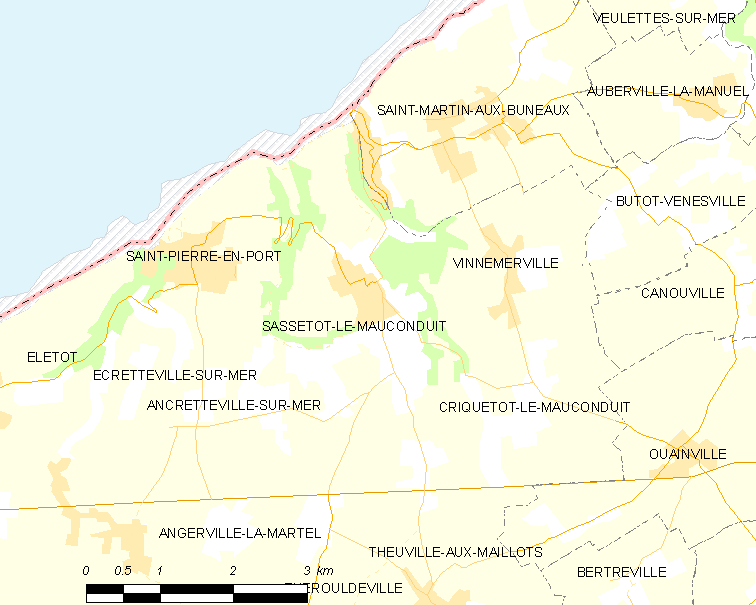 Map of French municipality Sassetot-le-Mauconduit